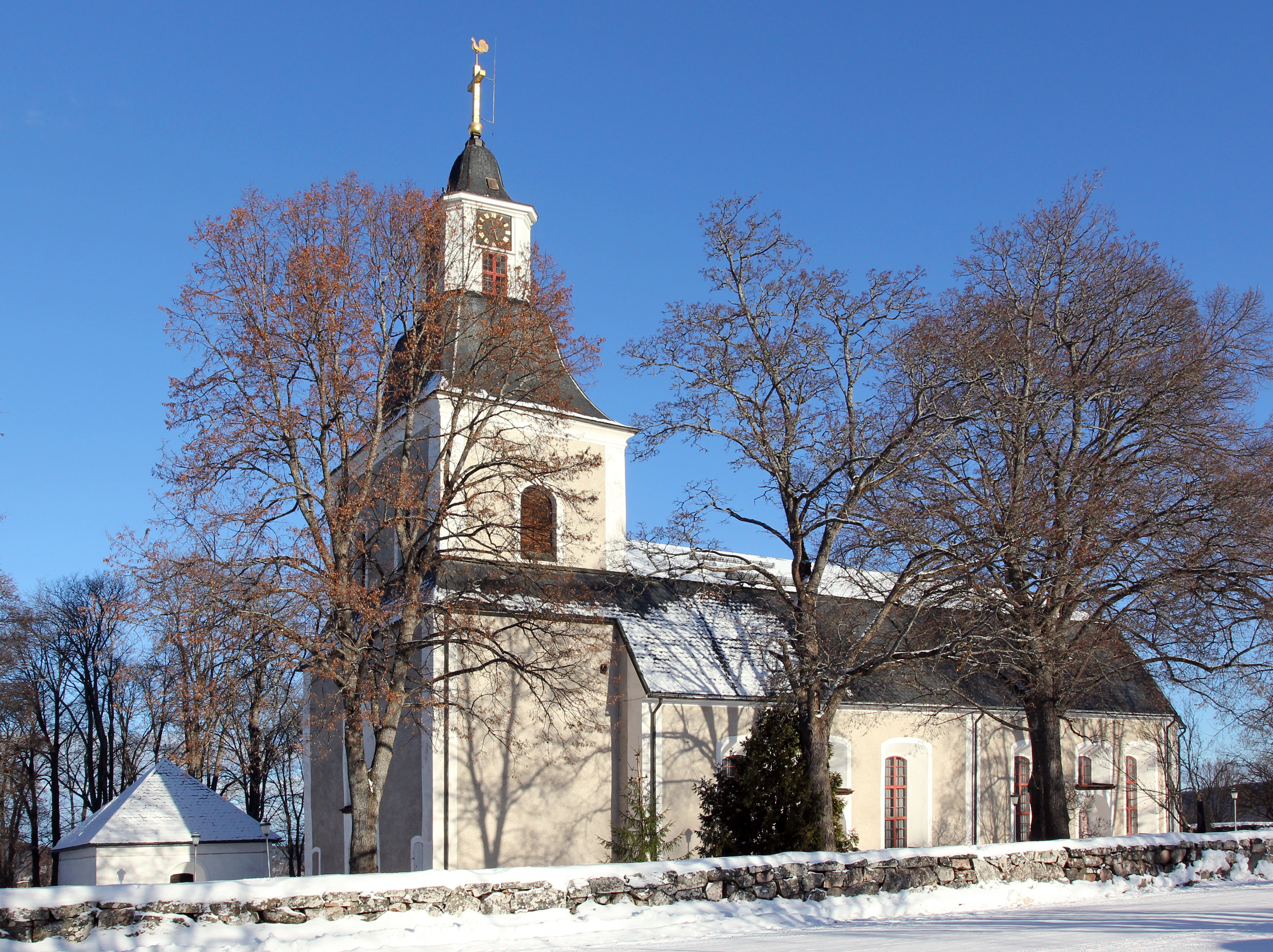 Ål's Church, main church for Ål's Parish (Church of Sweden) , Dalarna, Sweden.